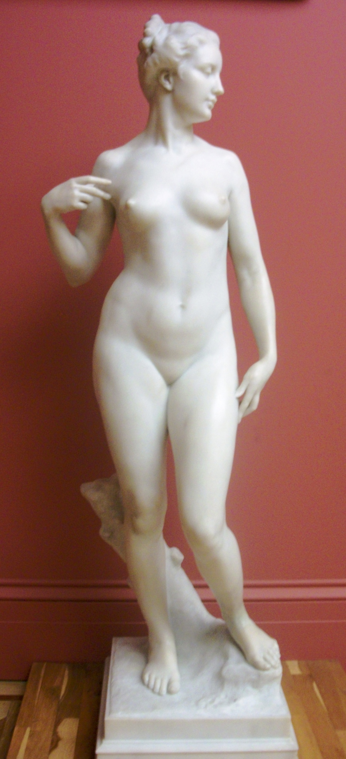 Atalanta